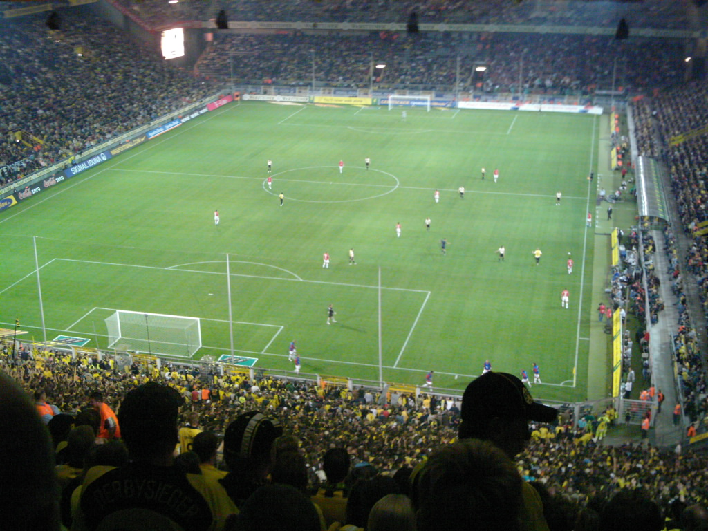 Signal Iduna Park (Dortmund, Germany) while football match Borussia Dortmund - Hannover 96